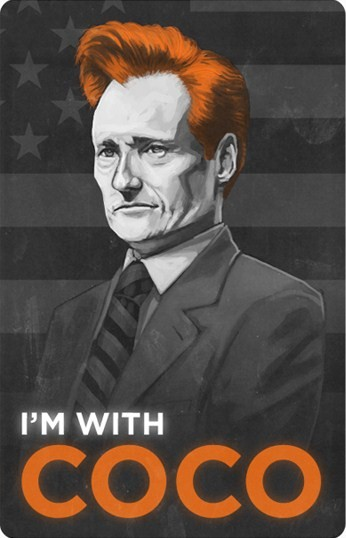 A poster for Team Conan, created during The Tonight Show controversy of 2010 and depicting Conan O'Brien in greyscale with orange